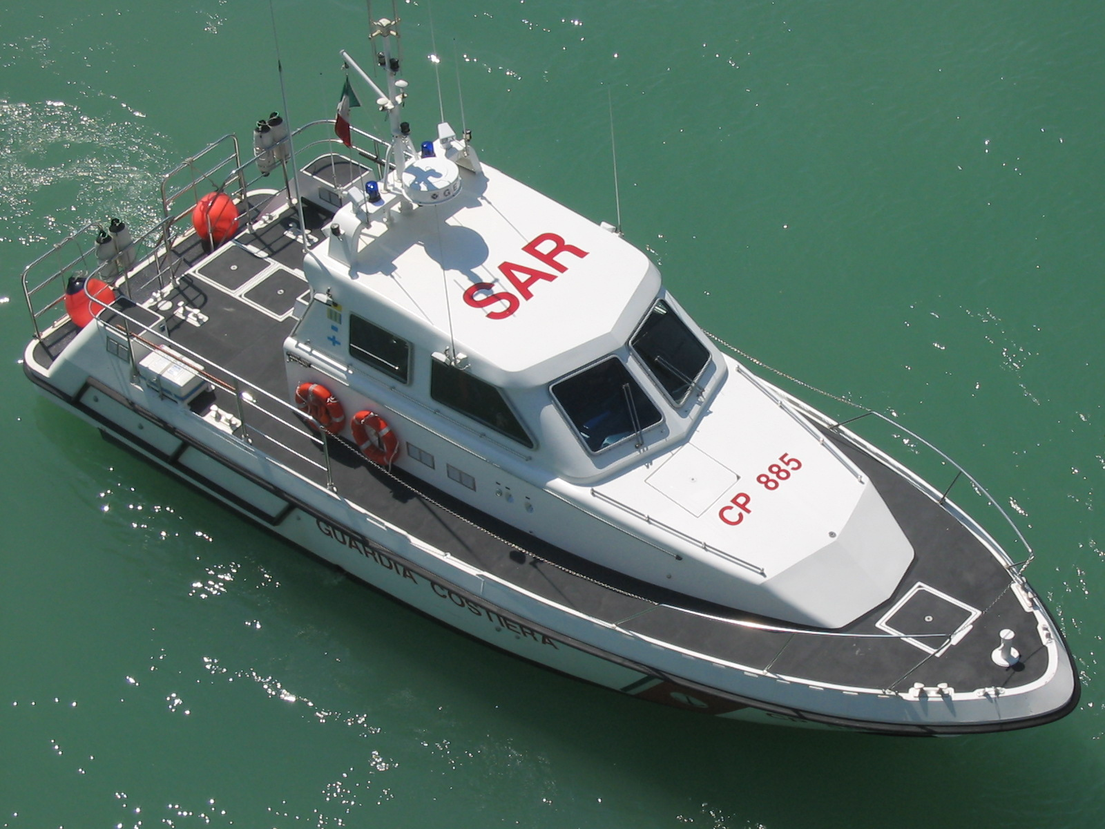 Patrol Boat CP-885 of Italian Coast Guard